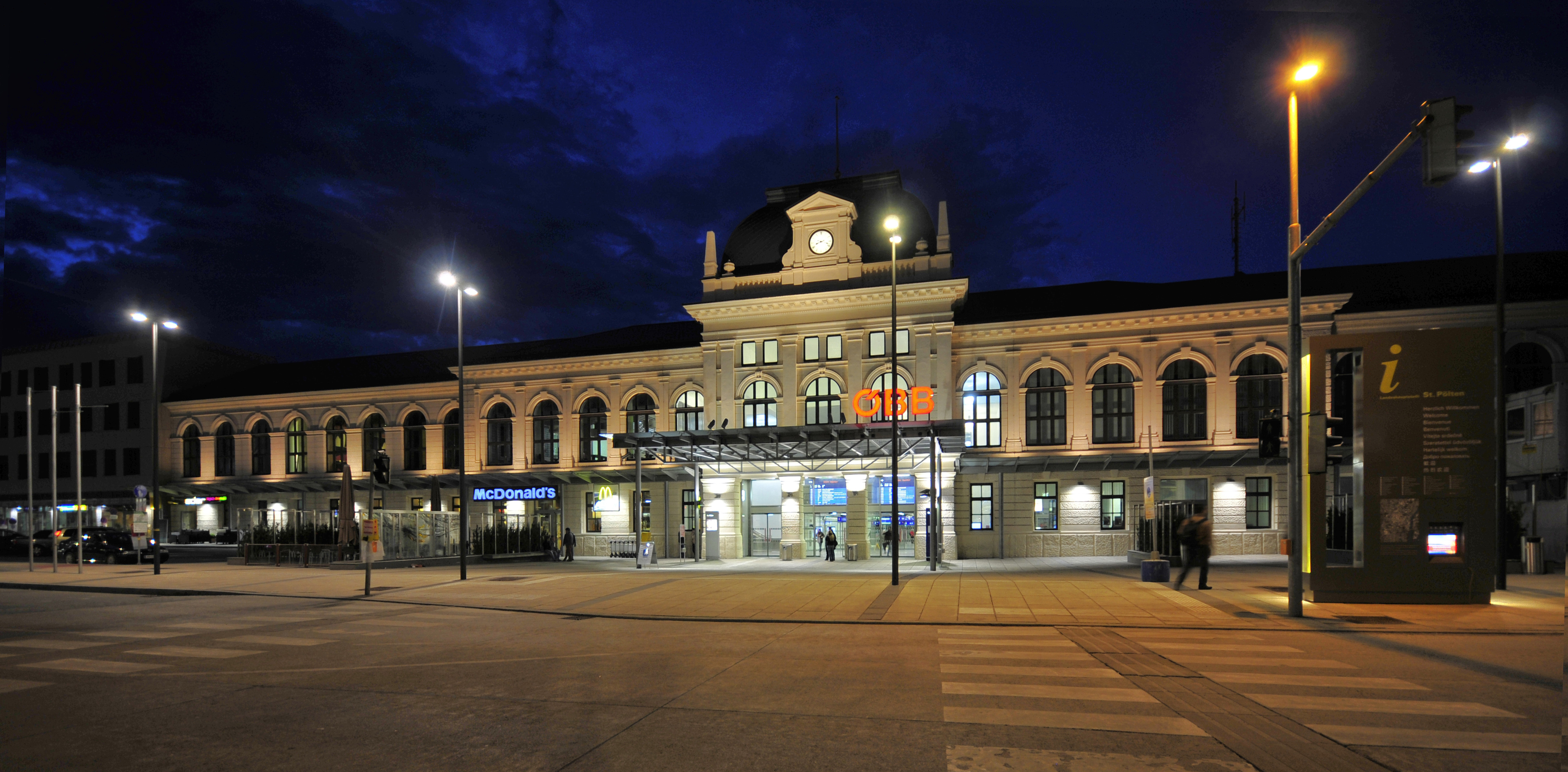 St. Pölten, Austria, Main Train Station Fotowanderung St. Pölten 13. April 2013 in St. Pölten, Niederösterreich 50mm • Allgemeines • Bahnhof • Domplatz • Fahrräder • Landhausviertel • Rathausplatz